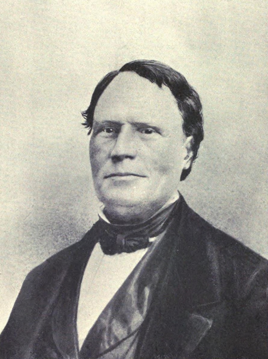 Rev. Artemas Bishop, D. D. (1795-1872). Photograph taken in 1857. He was the father of Rev. Sereno Bishop.